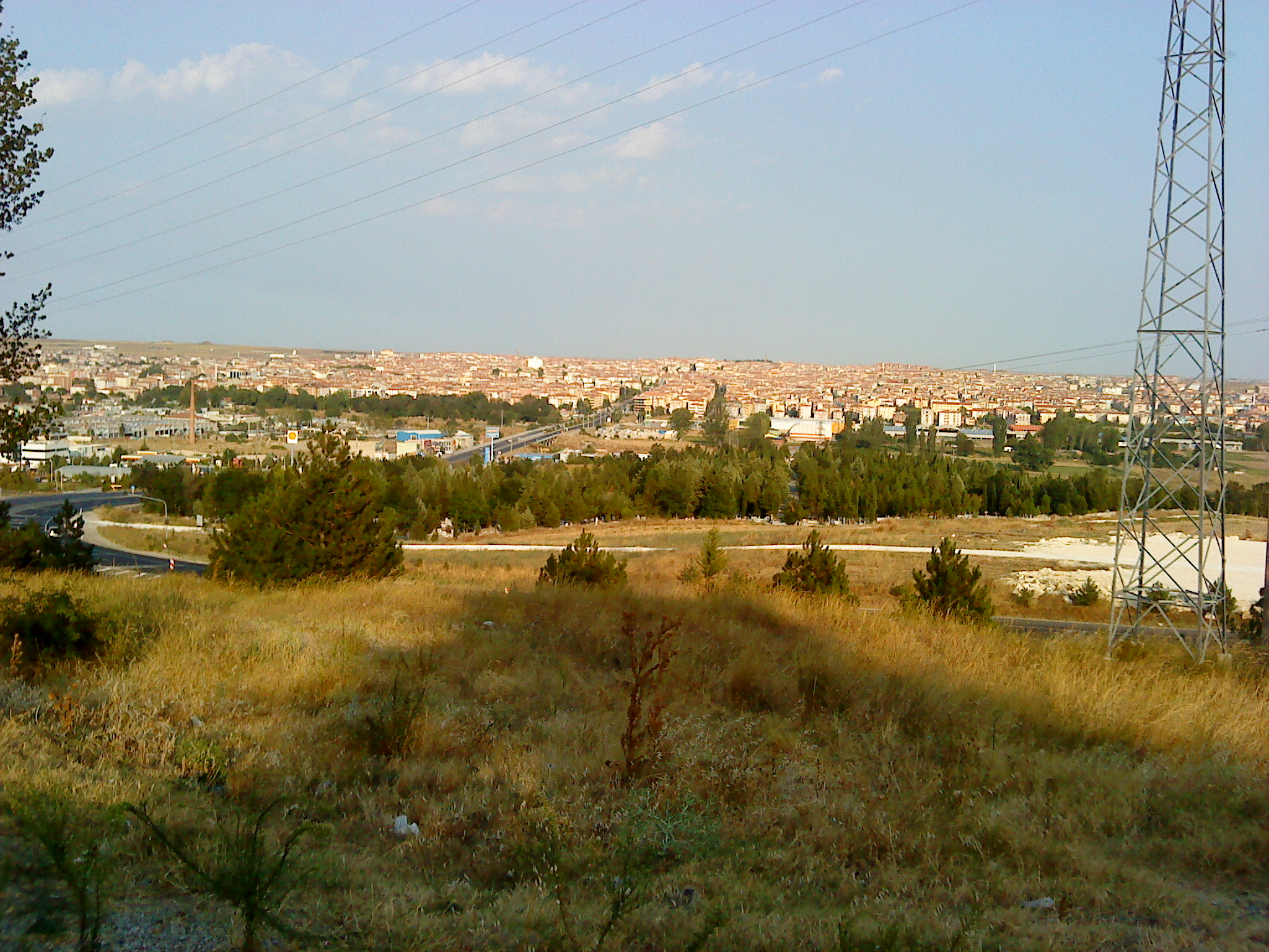 Lüleburgaz